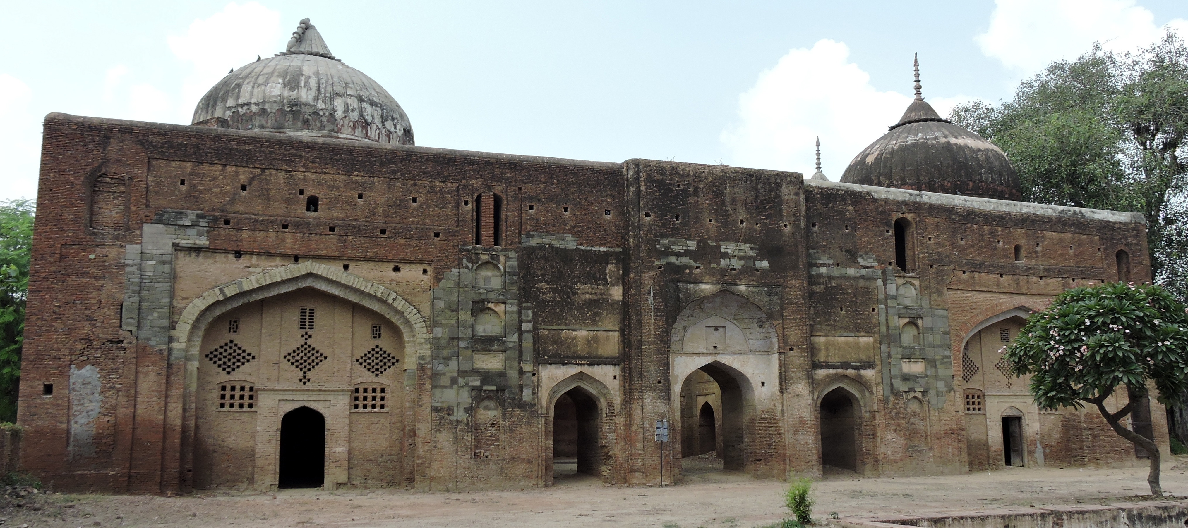 Mosque Bhagat Sadna Kasai, Sirhind,Punjab, India